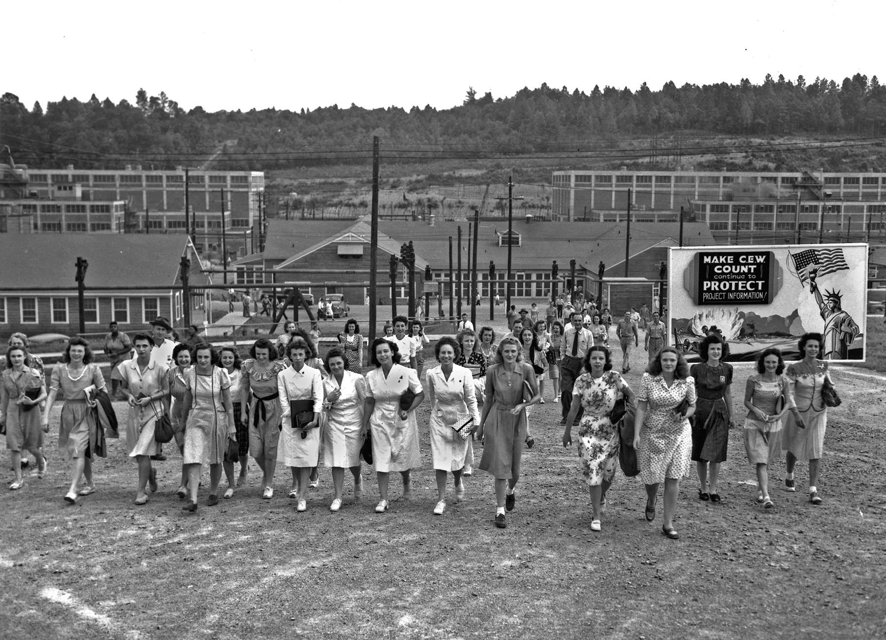 Shift change at the Y-12 uranium enrichment facility in Oak Ridge, Tennessee, during the Manhattan Project. Notice the billboard: "Make CEW count — Continue to protect project information."